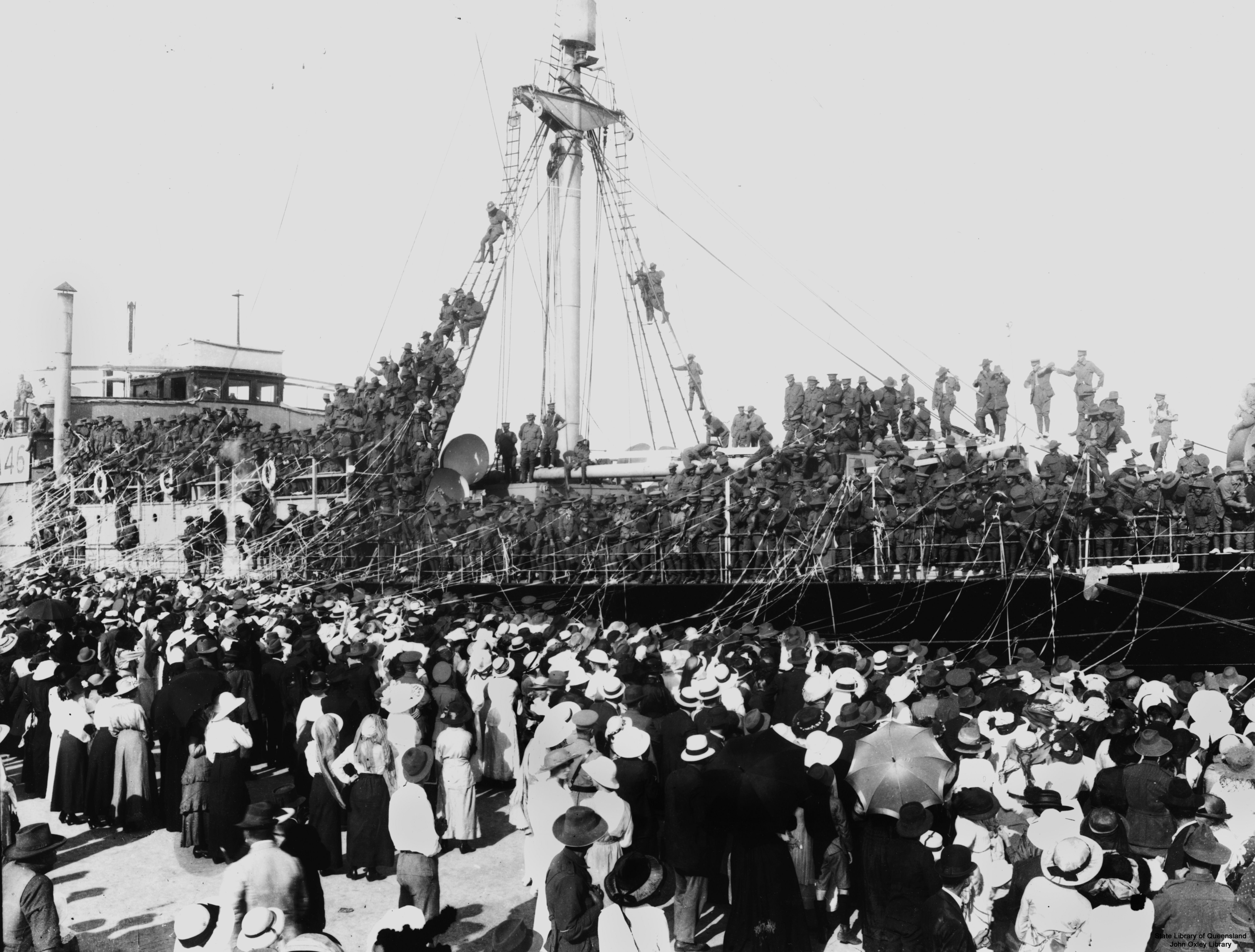 Troopship leaving the Pinkenba Wharf in Brisbane during World War I. Image shows a large crowd gathered on the Pinkenba Wharf to farewell a troopship during World War I. The ship is festooned with streamers.